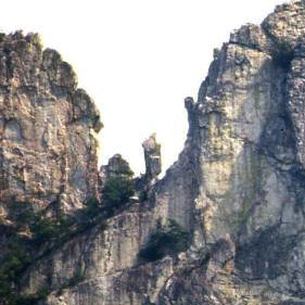 Seneca Rocks formation in West Virginia Closeup of the Gendarme.